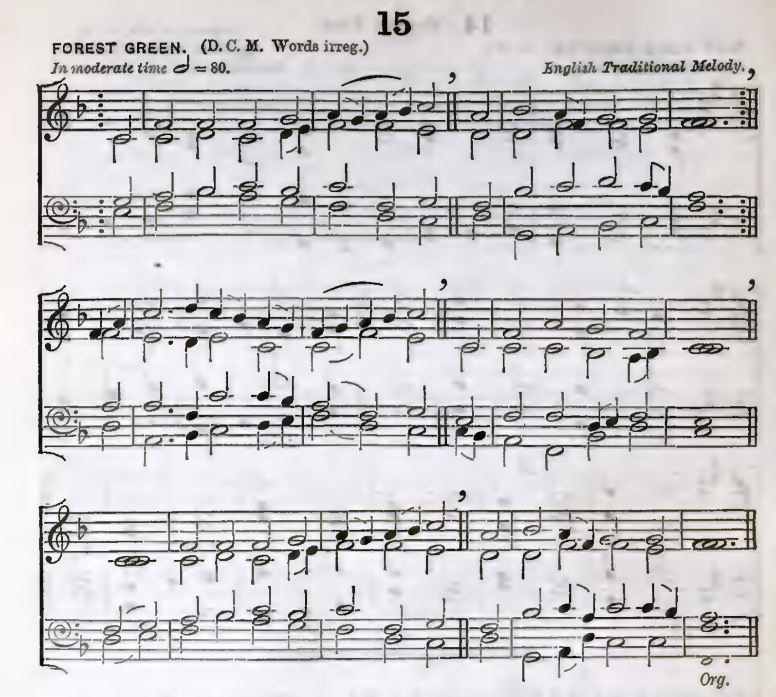 "Forest Green" hymn tune, from the English Hymnal, 1906